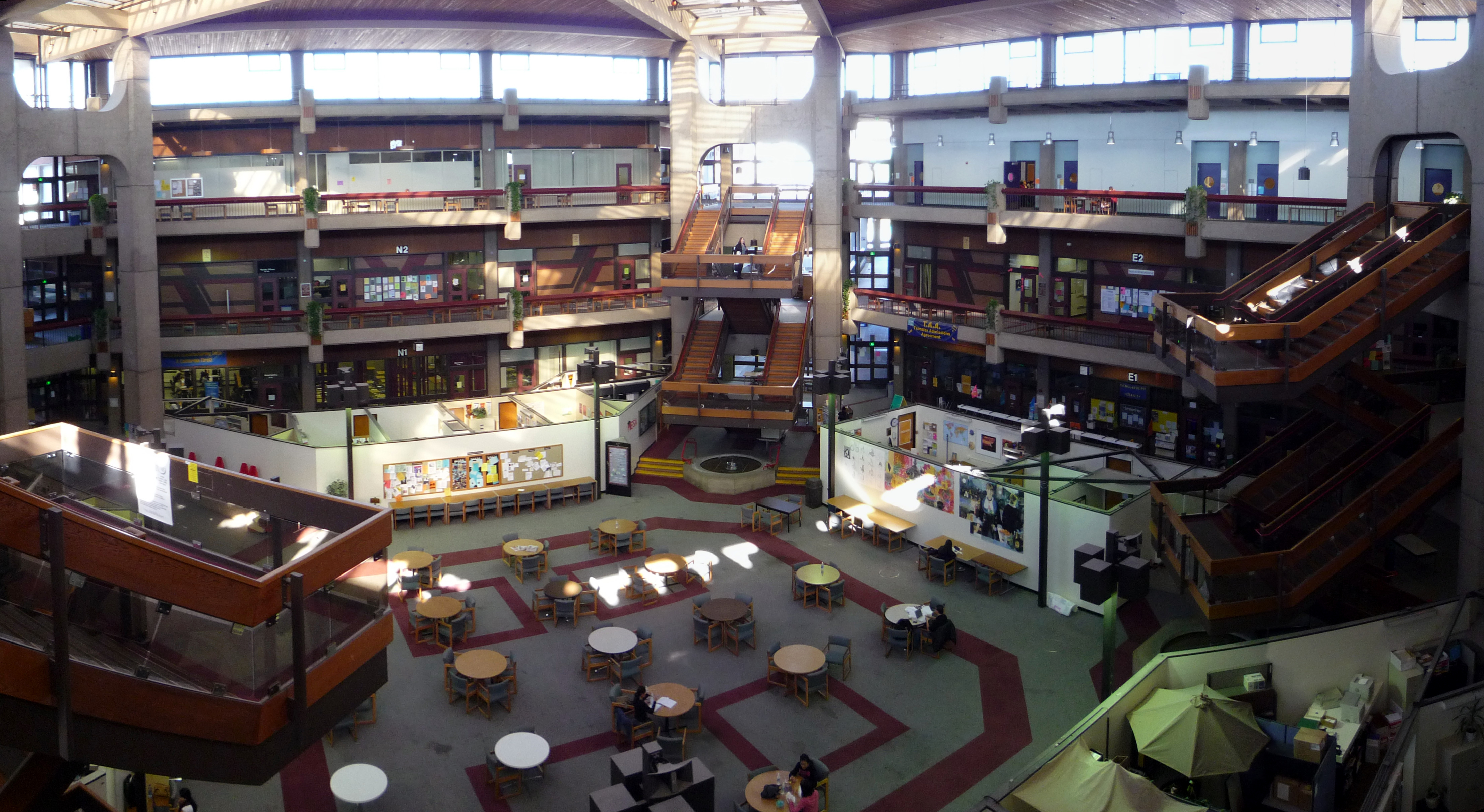 Interior atrium of the Main Building at Mission College, a community college in Santa Clara, California.